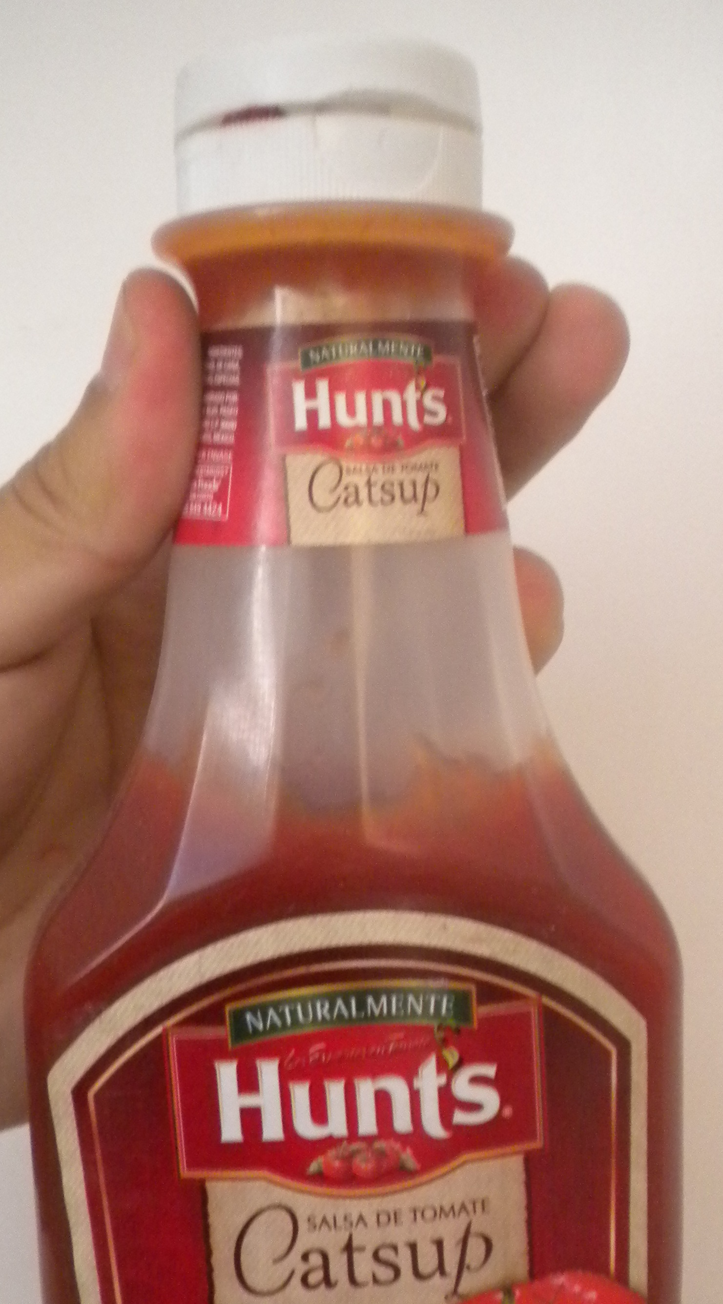 ketchup hunt's